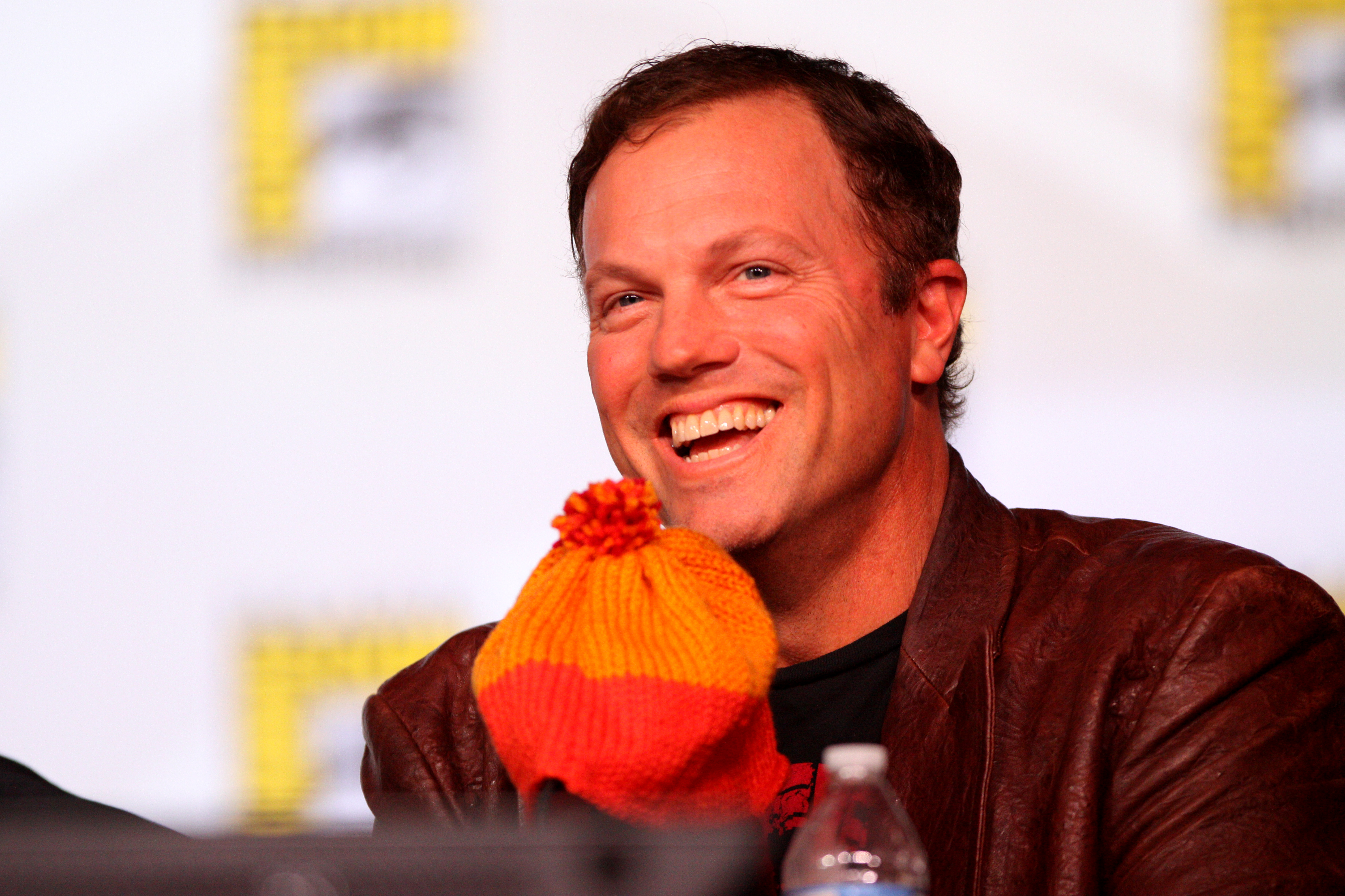 Adam Baldwin speaking at the 2012 San Diego Comic-Con International in San Diego, California.